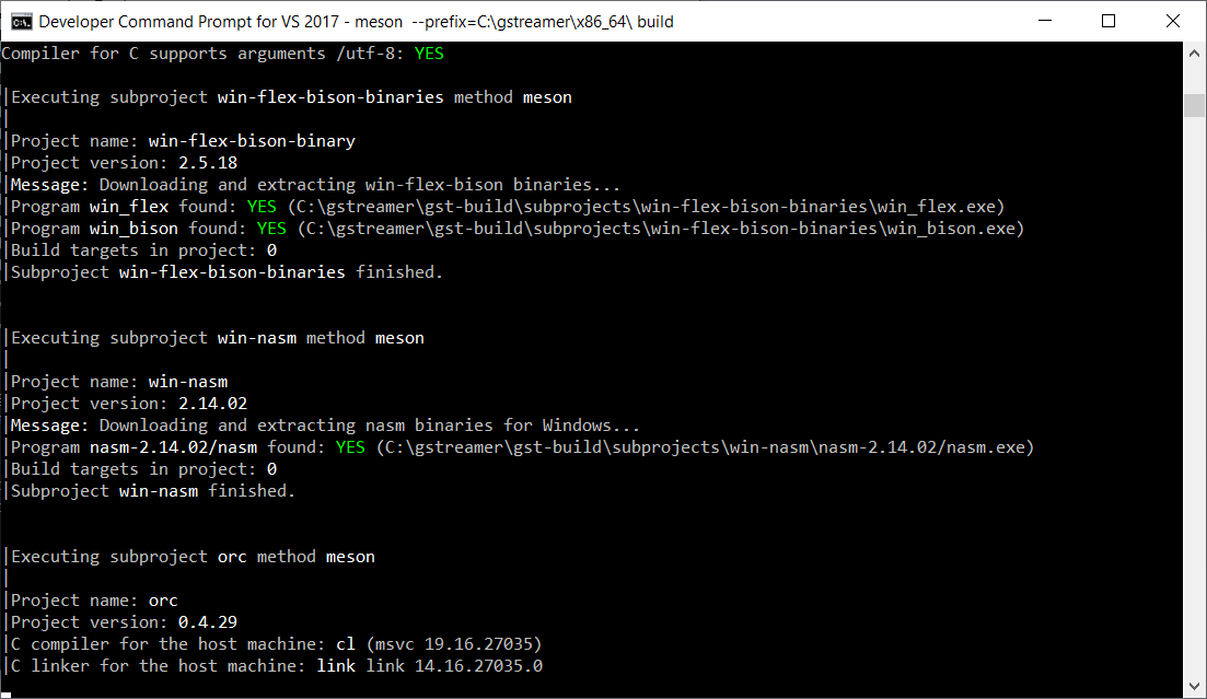 Meson configuring the GStreamer project prior to compilation.